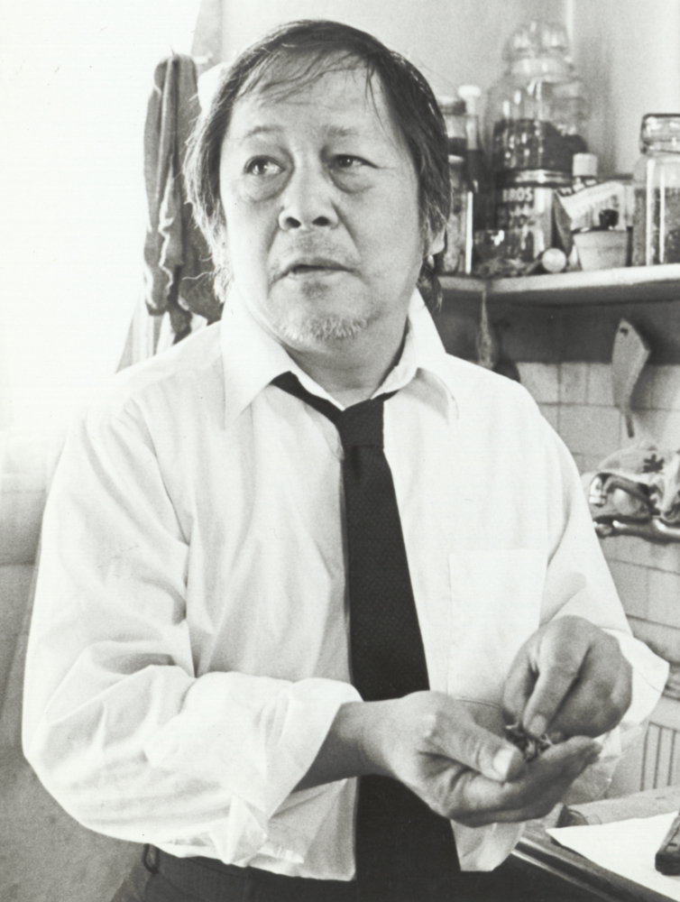 Actor Victor Wong thinking about what to make for dinner in an acquaintance's apartment in San Francisco, California 1983 Photo by Nancy Wong.